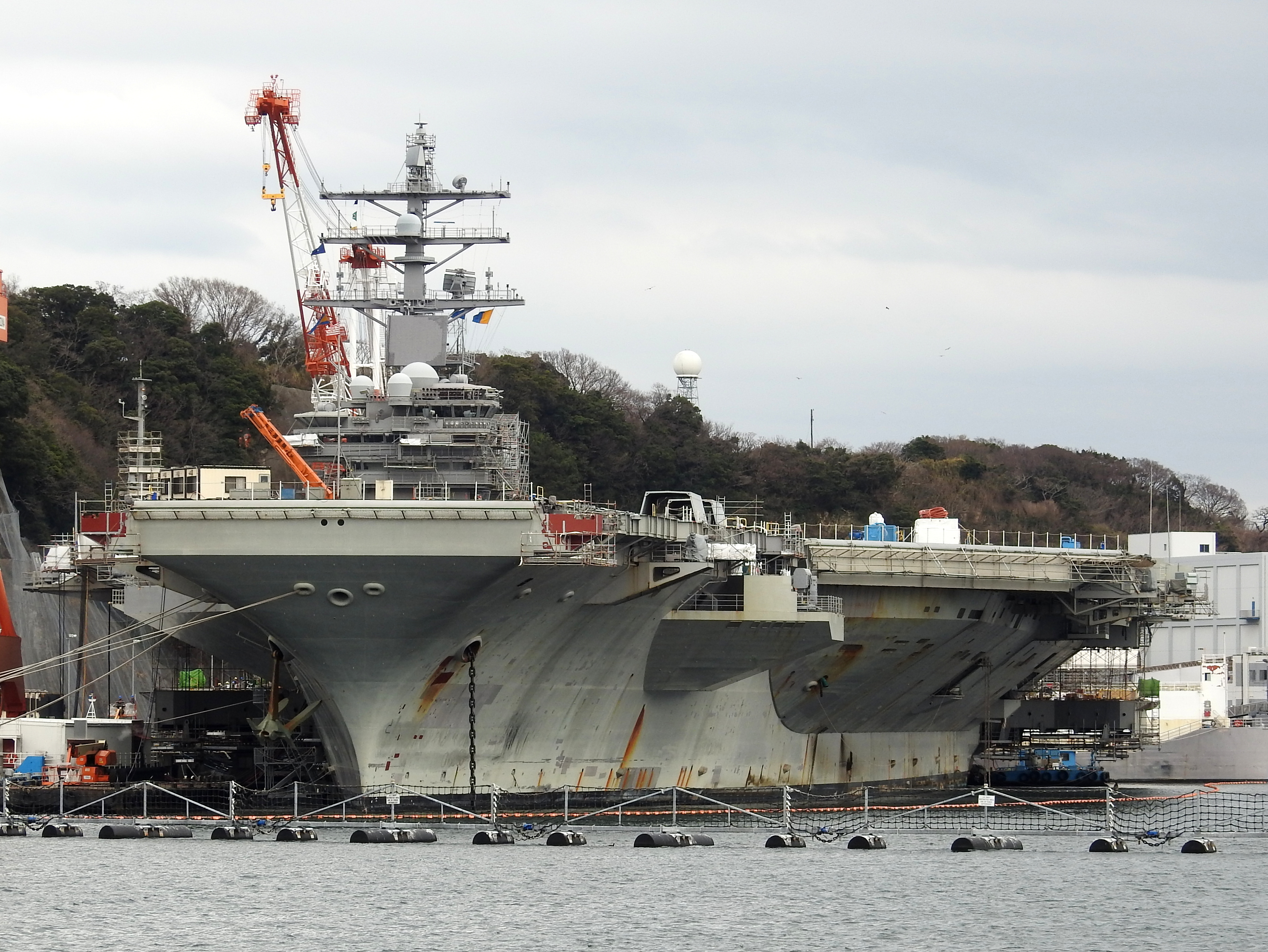 USS Ronald Reagan CVN-76 in its home port of Yokosuka, Kanagawa prefecture, Japan in February 2017. It is shown undergoing Selected Restricted Availability maintenance.